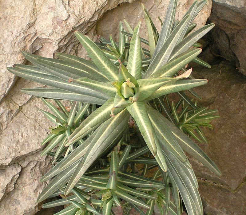 Euphorbia lathyris